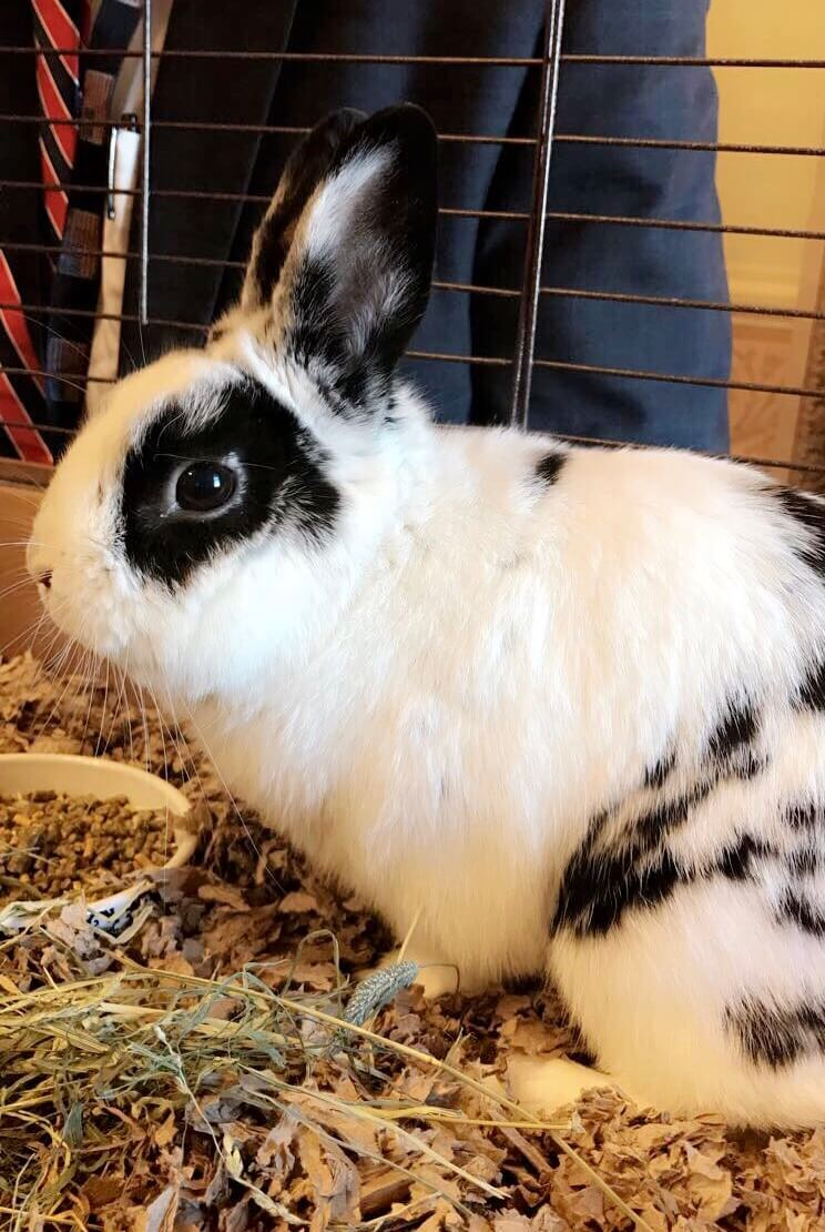 The Second Family’s pet rabbit, Marlon Bundo, also known as BOTUS, visiting the White House for the first time on May 9th, 2017.